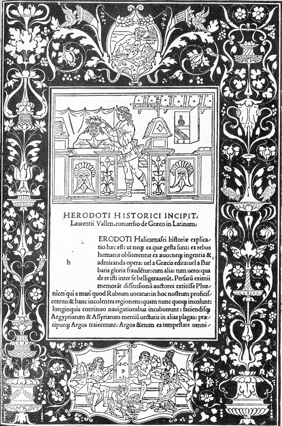 Dedication page for the Historiae by the Greek historian Herodotus, translated into Latin by Lorenzo Valla and edited by Antonio Mancinelli. Printed by Joannes and Gregorius de Gregoriis de Forlivio at Venice, 29 March 1494. Image courtesy of the General Collection, Beinecke Rare Book & Manuscript Library, Yale University, New Haven, Connecticut.